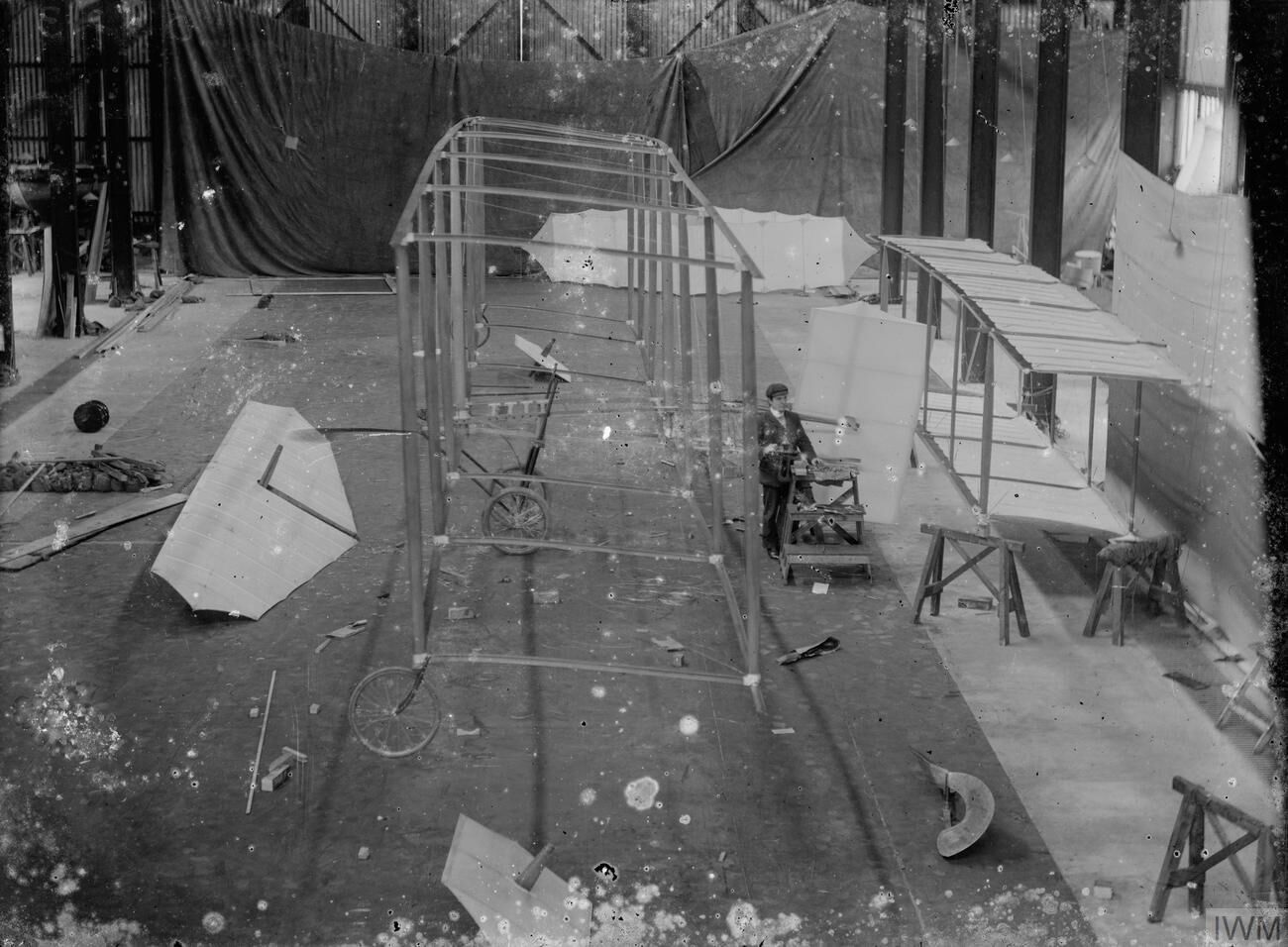 Aviation in Britain Before the First World War Just the framework of the wings of British Army Aircraft I stood in 'B' airship shed. A workman is stood next to the aircraft. Cody began building the British Army Aircraft I in 1907 with the design similar to the kites and glider that he had successfully flown. It had twin propellers, chain driven by a single 50 hp Antoinette engine, the propellers were situated behind the leading edge of and between the upper and lower wings. When he had finished building the aircraft Cody carried out an extensive period of tests to the aircraft often involving hops off the ground. Throughout this period of testing there was intense public and press interest with Cody often being ridiculed for his apparent lack of progress in comparison with foreign pilots and designers particularly the Wright brothers who were touring Europe at that time. Cody made the first sustained flight (lasting 27 seconds and for a distance of around 1390 feet) on the 16th October 1908. Though he had made previous short flights or leaps this was the first one to exceed quarter of a mile, the distance which the Royal Aero Club deemed in 1958 to be the minimum for a "powered leap" to be termed a "sustained flight". The flight ended in a crash caused by him trying to turn the aircraft too quickly at too low a height. Cody was largely unhurt in the crash apart some cuts to his forehead.